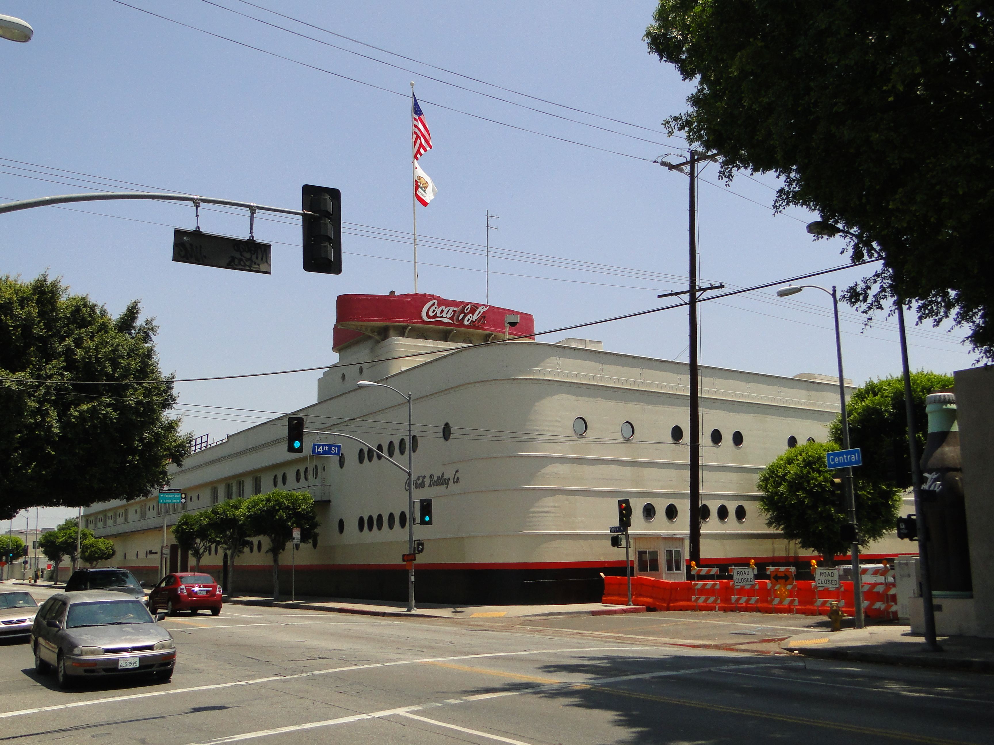 The Coca-Cola Bottling Building,1334 South Central Avenue Los Angeles, CA 90021-2261, Los Angeles, California.